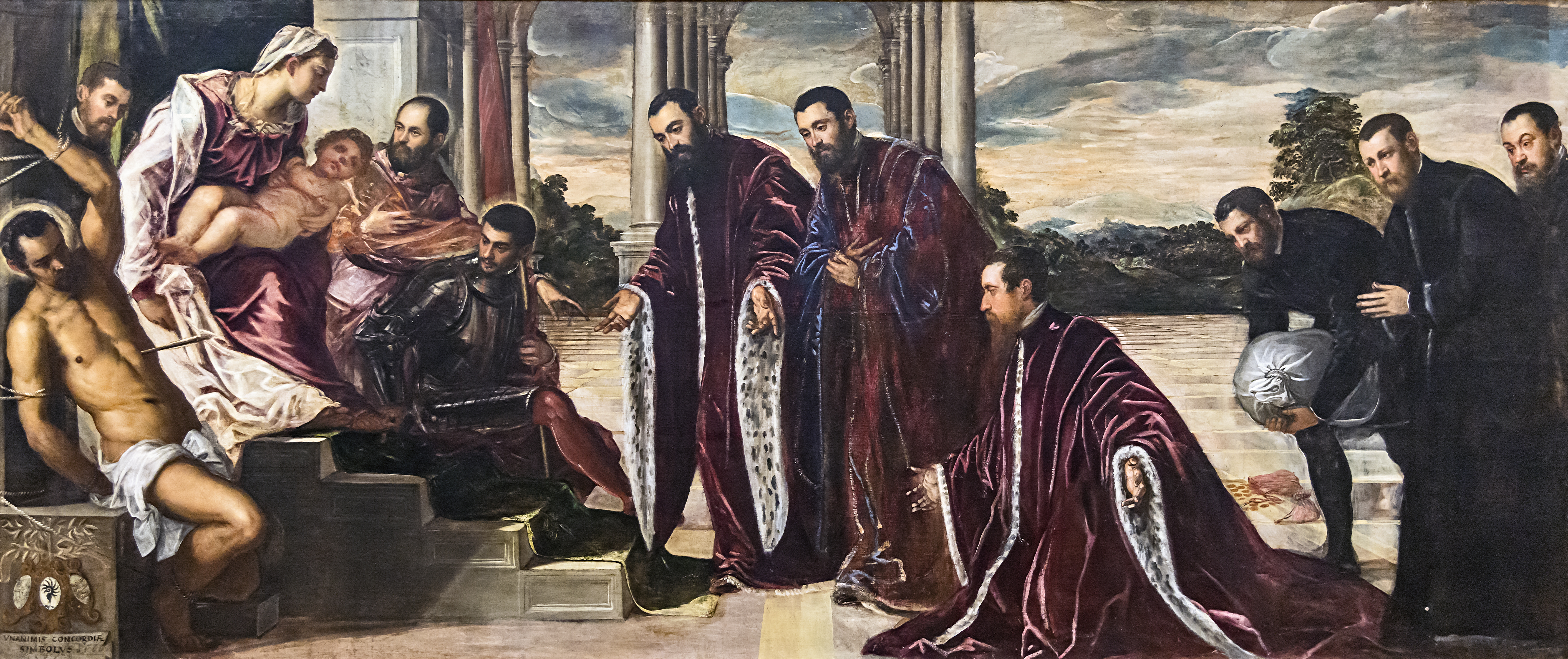 Madonna and Child on Throne and Saints Sebastian, Marco and Theodore, venerated by three Camerlengo (Lorenzo Dolfin, Michele Pisani and Marin Malipiero) with the secretaries